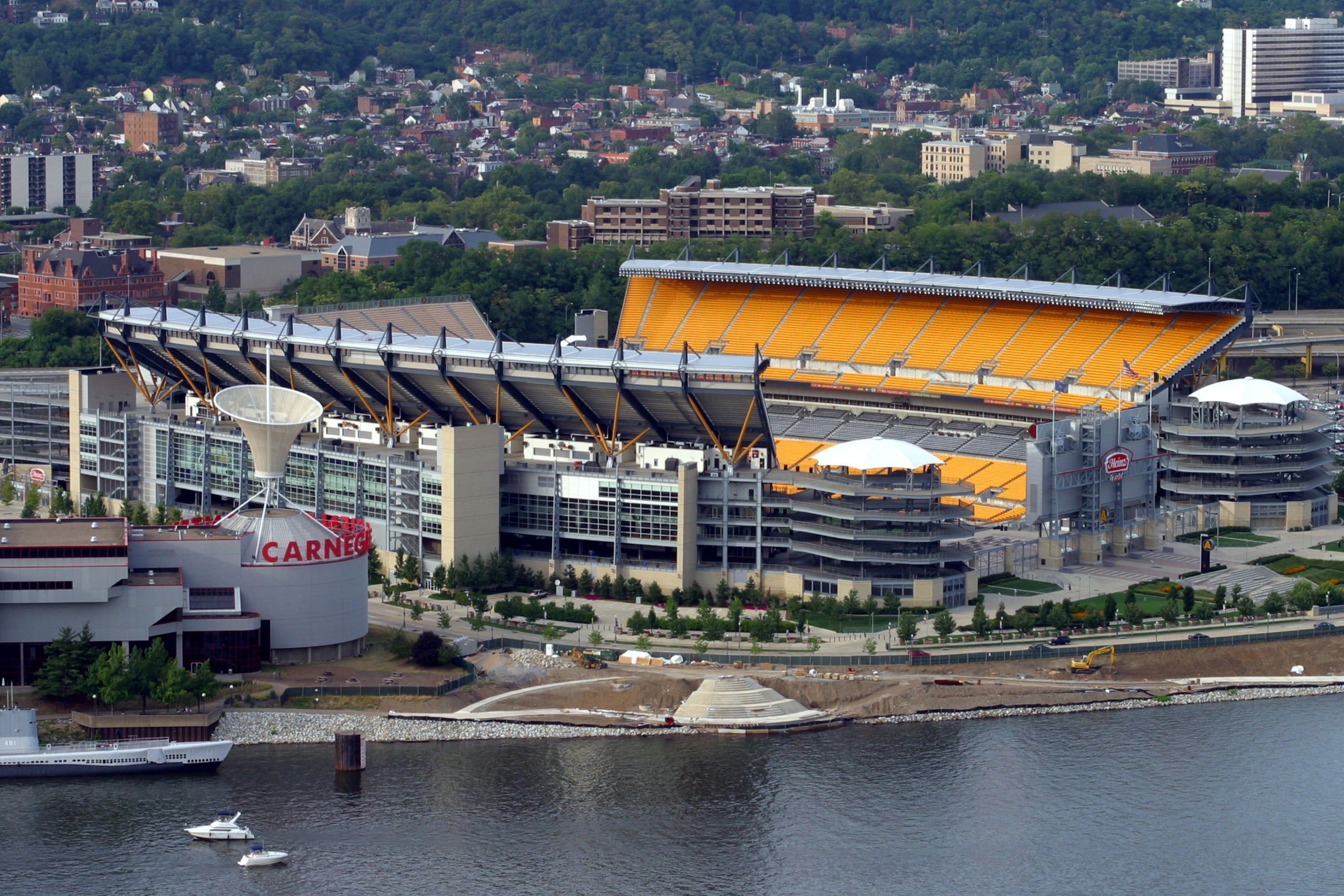 Heinz Field, Pittsburgh, Pennsylvania, USA. Taken from Mt. Washington; Ohio River in the foreground.